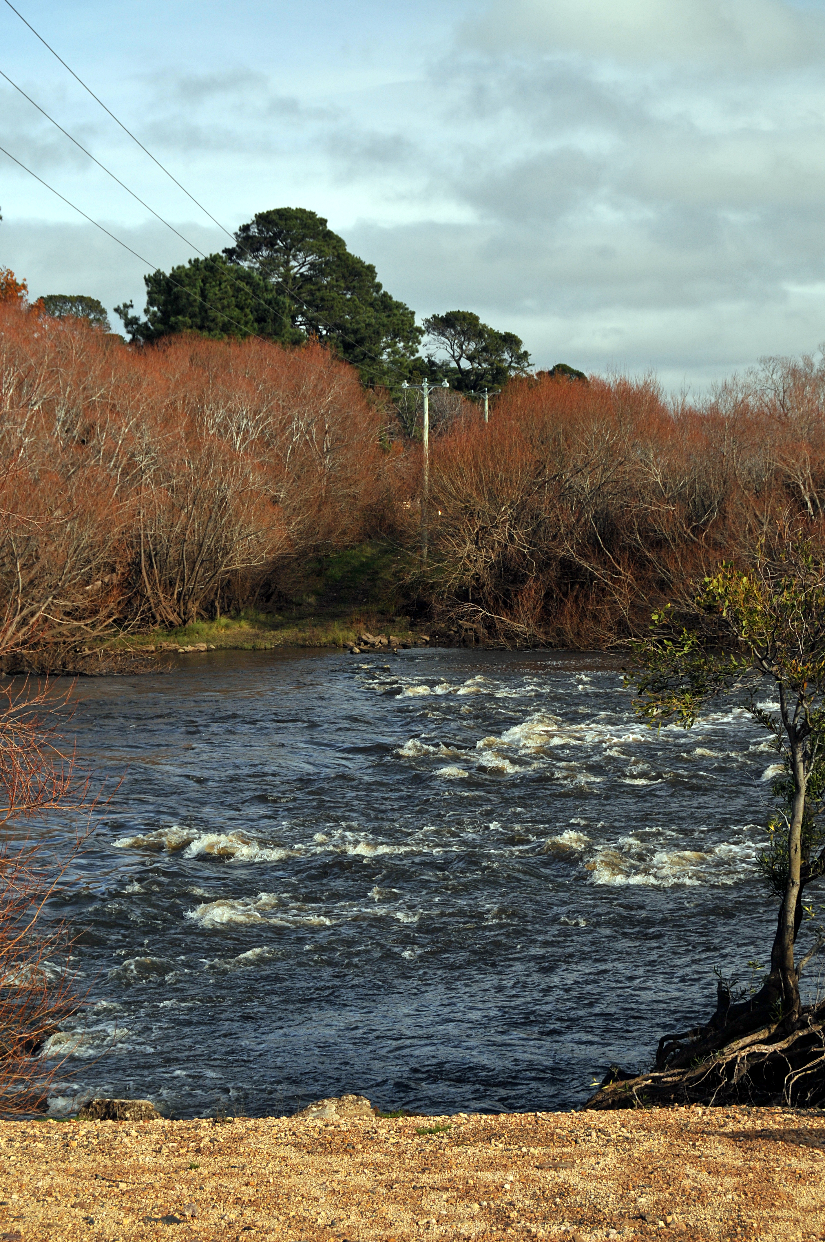 Site of Reibey's ford-the only river crossing point nearby until the 1840s. Later this was the site of the, often underwater, sequence of 3 19th and 20th century bridges.